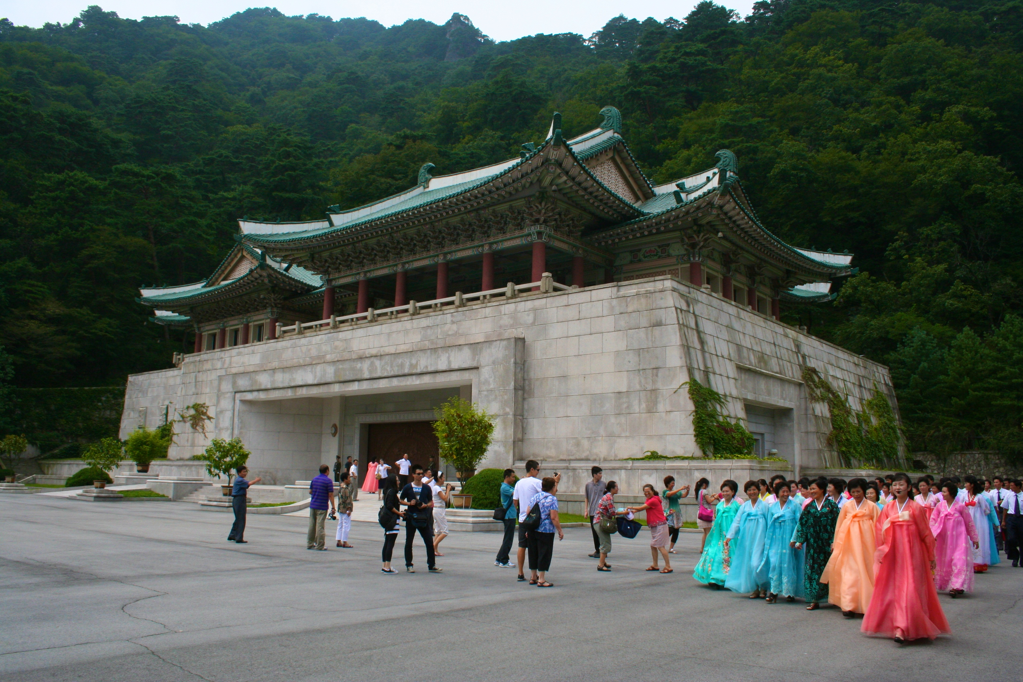 Contains all of Kim Jong Il's gifts